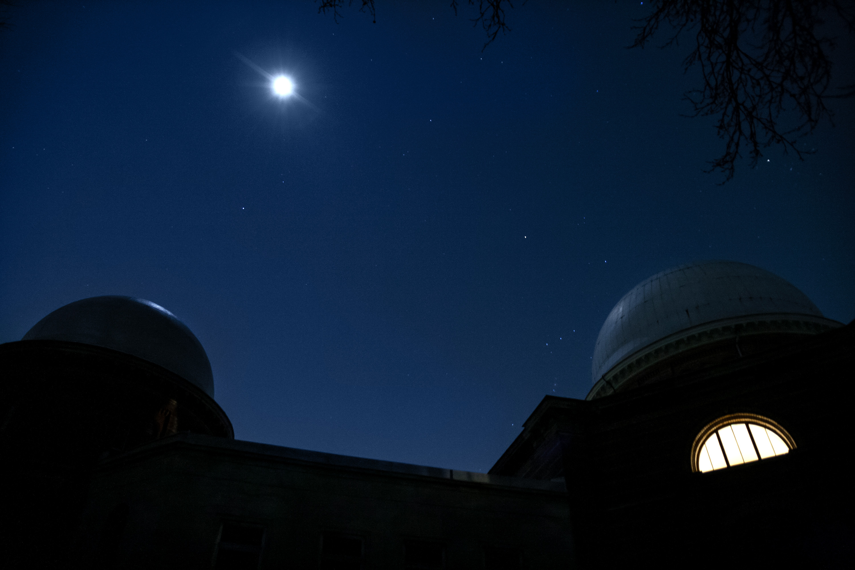 Vienna Observatory in Vienna, Austria.